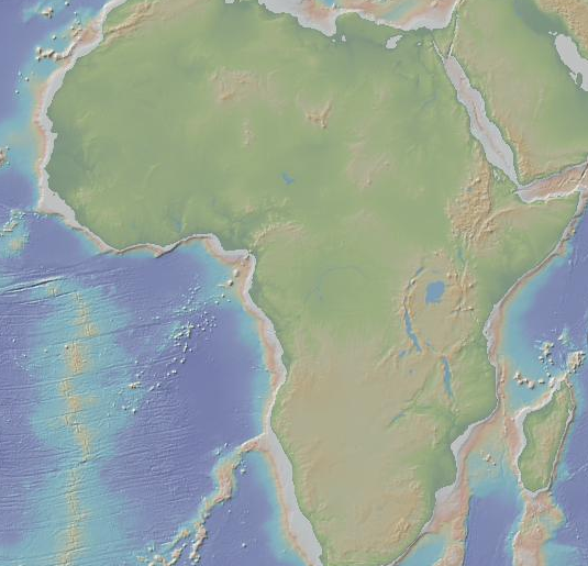 The Angola Basin is located off the west coast of Africa above the Walvis Ridge.